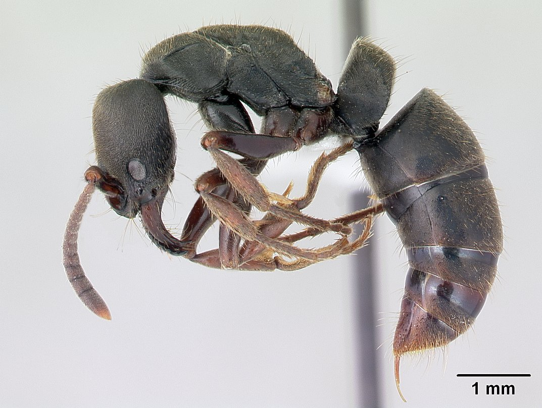 Profile view of ant Pachycondyla harpax specimen casent0178687.